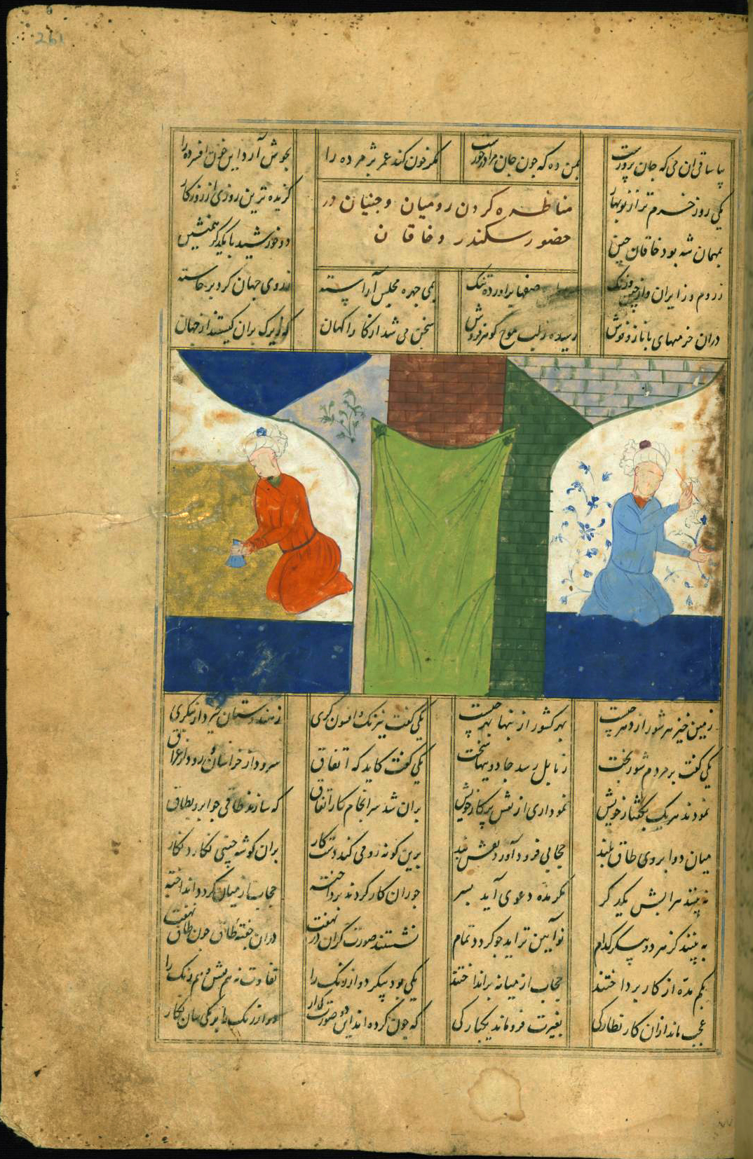 On this folio from Walters manuscript W.604, separated by a green curtain, a Chinese and Roman artist compete with each other.